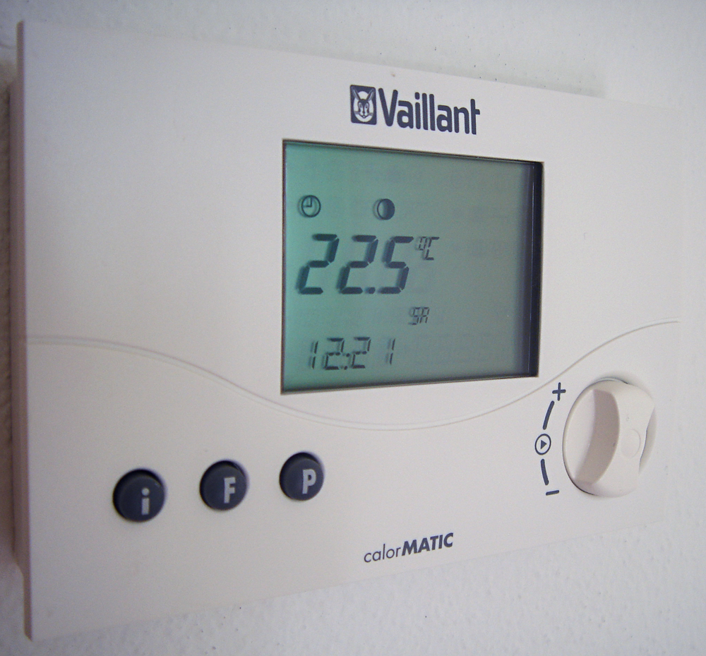 Digital thermostat in the living room